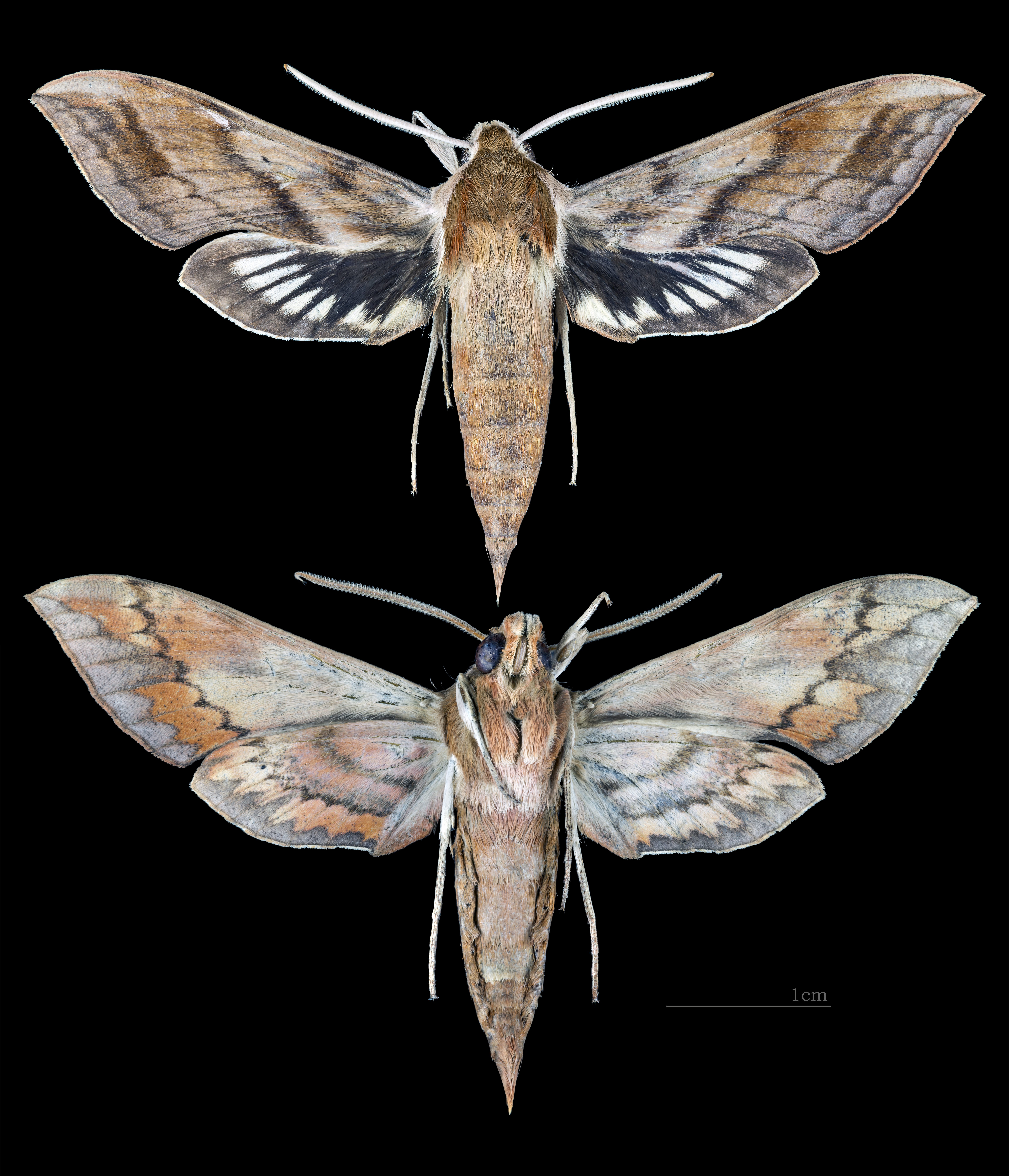 Xylophanes norfolki - Two views of same specimen Collection of the Mathematician Laurent Schwartz